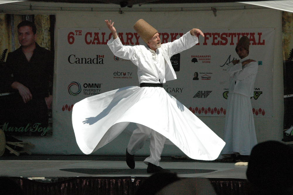 This picture was taken at the 6th annual Calgary Turkish Festival in July2012. Whirling Dervishes is one of the most desired show at Calgary Turkish Festival.